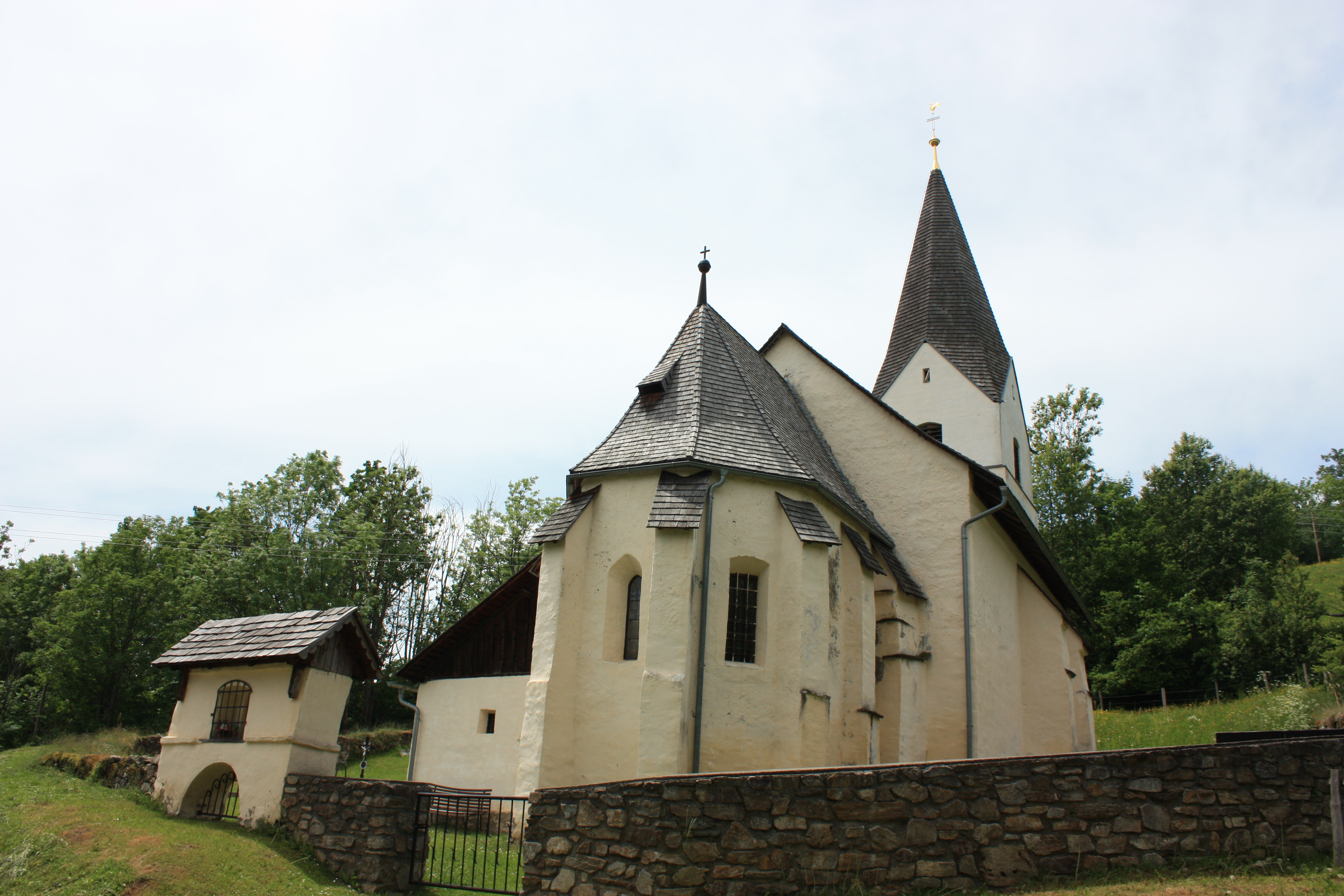 Subsidiary church St Michael in Zosen in the community of Hüttenberg